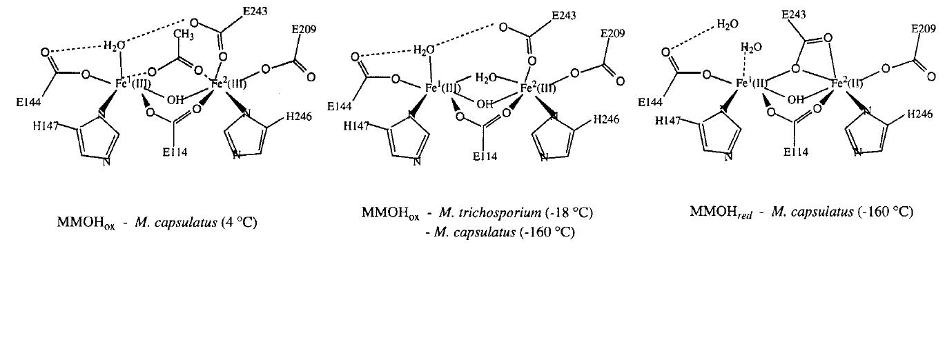 Different reaction states of MMO